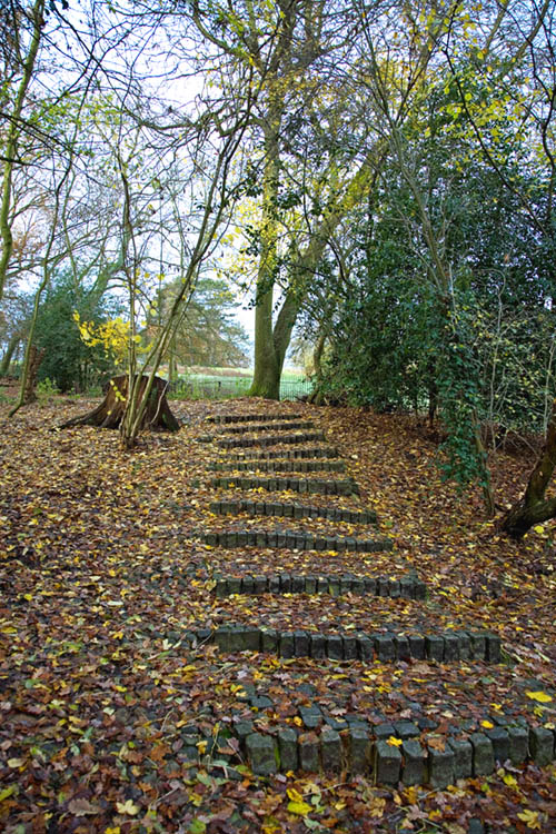 Eleven of the 50 steps upward to the JFK Memorial. Each individual step different to all others and made in total from 60,000 granite setts. Representing a pilgrimage within Jellico's conceptualisation. However also noted as representing the states of the USA and in some reviews "a step for each year of Kennedy's life" although this latter notion is self-evidently false. Author: Antony McCallum